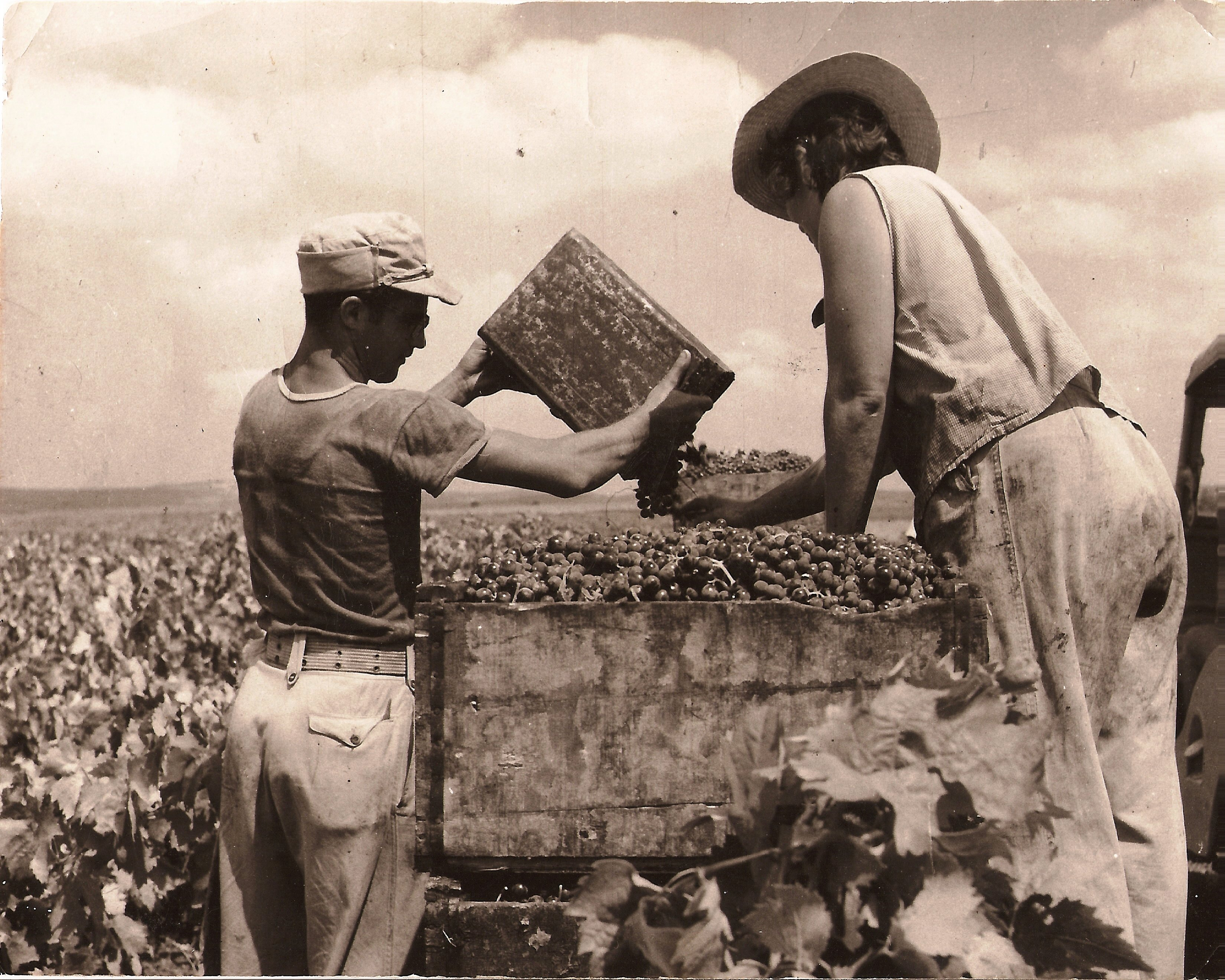 Agriculture in Israel